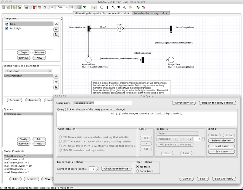 This is a screenshot of TAPAAL 2.2.1 verification tool in the editor mode with an open query creation dialog.